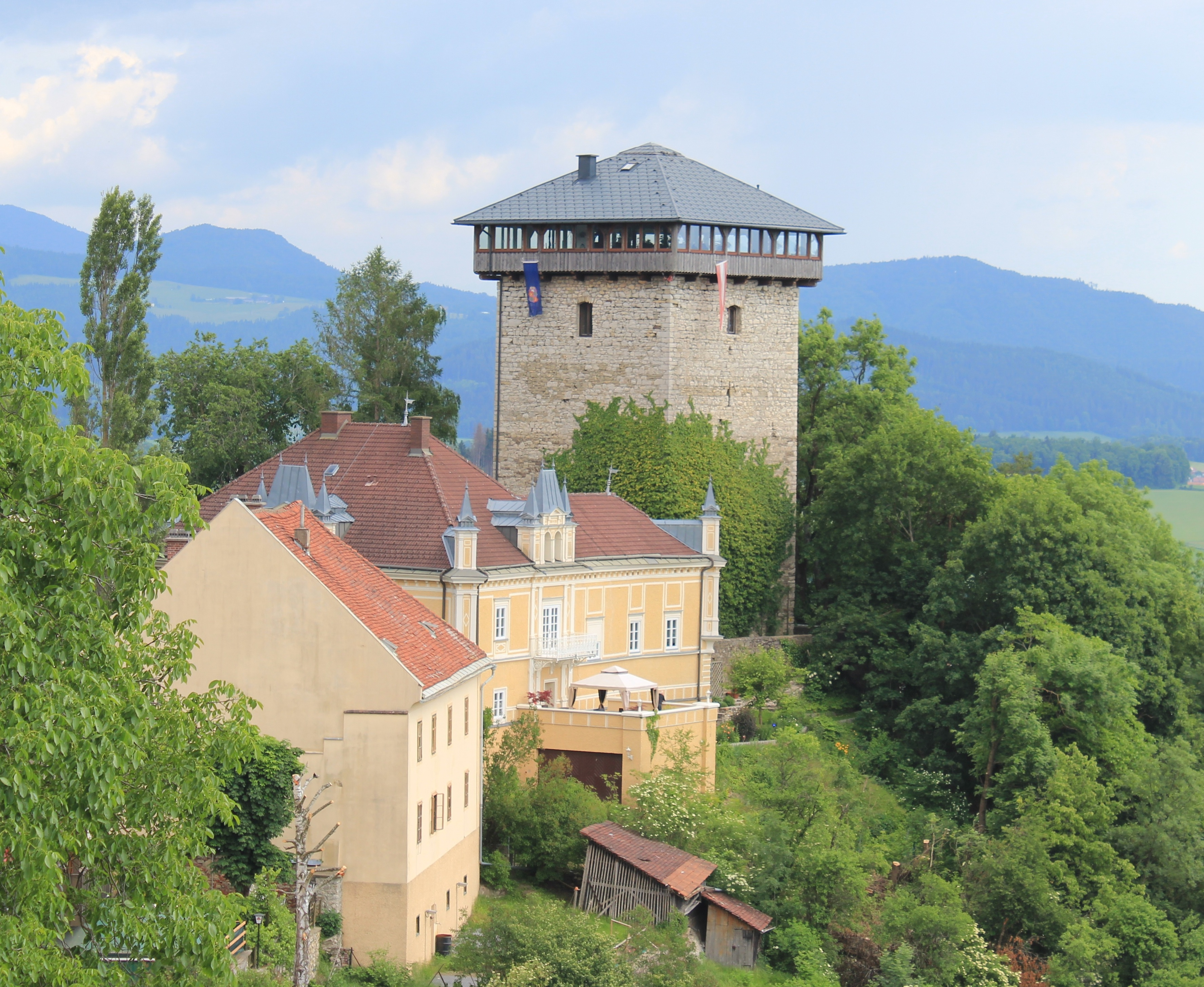 Annen-tower in Althofen